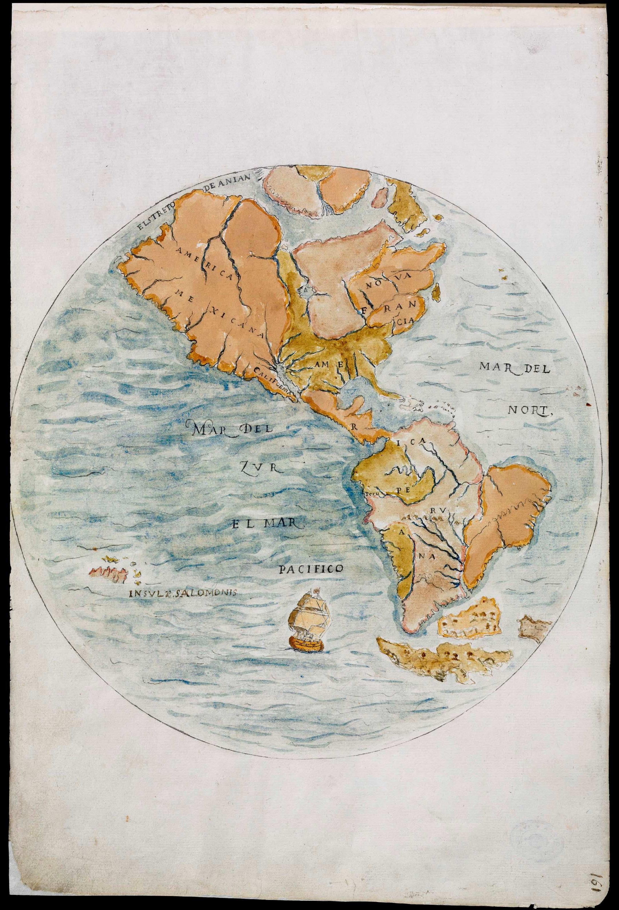 Map "of all of the Indies" i.e. America, by Nicolás de Cardona mainly to show the gulf that separates Baja California from the rest of North America. Page 161 of the Descripciones geográphicas e hydrográphicas de muchas tierras y mares del Norte y Sur en las Indias, en especial del descubrimiento del Reino de la California (Geographic and hydrographic descriptions of many northern and southern lands and seas in the Indies, specifically the discovery of the kingdom of California), written by captain Nicolás de Cardona after his expedition of 1614.